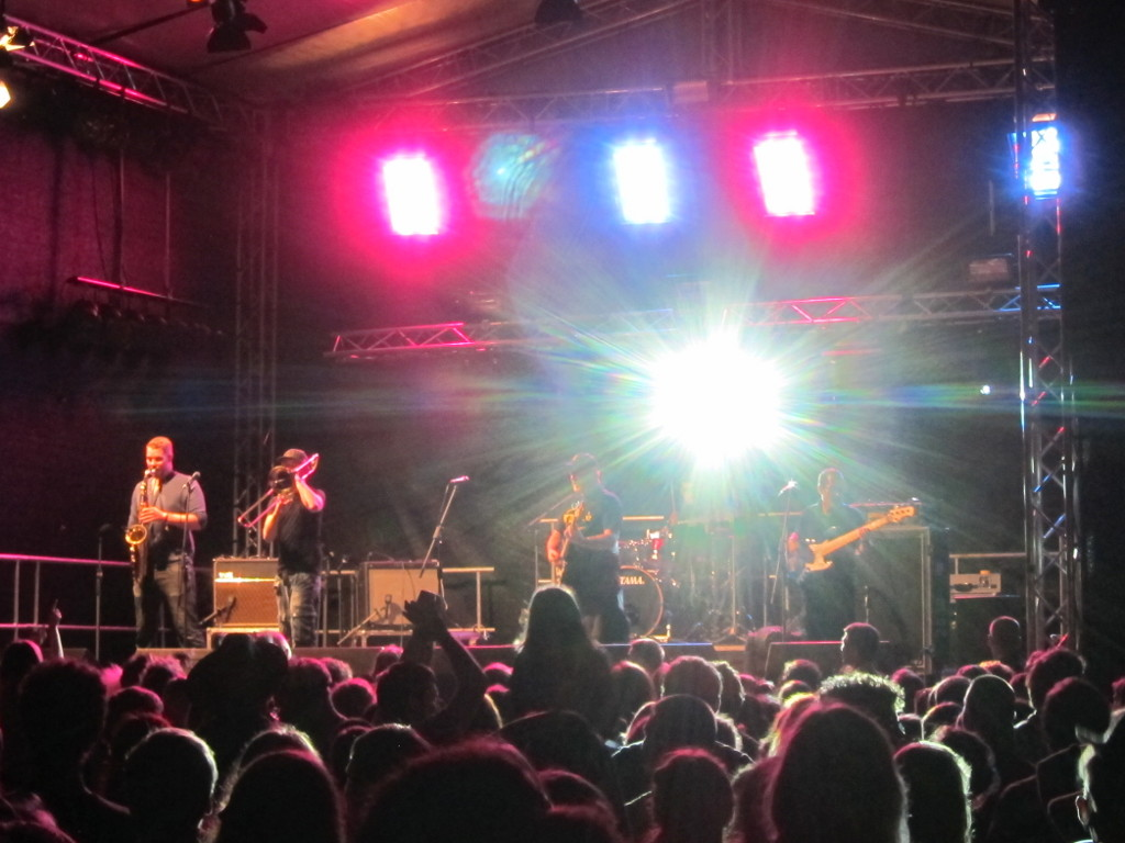 The Toasters playing at LabaDaba festival, 2013.08.02